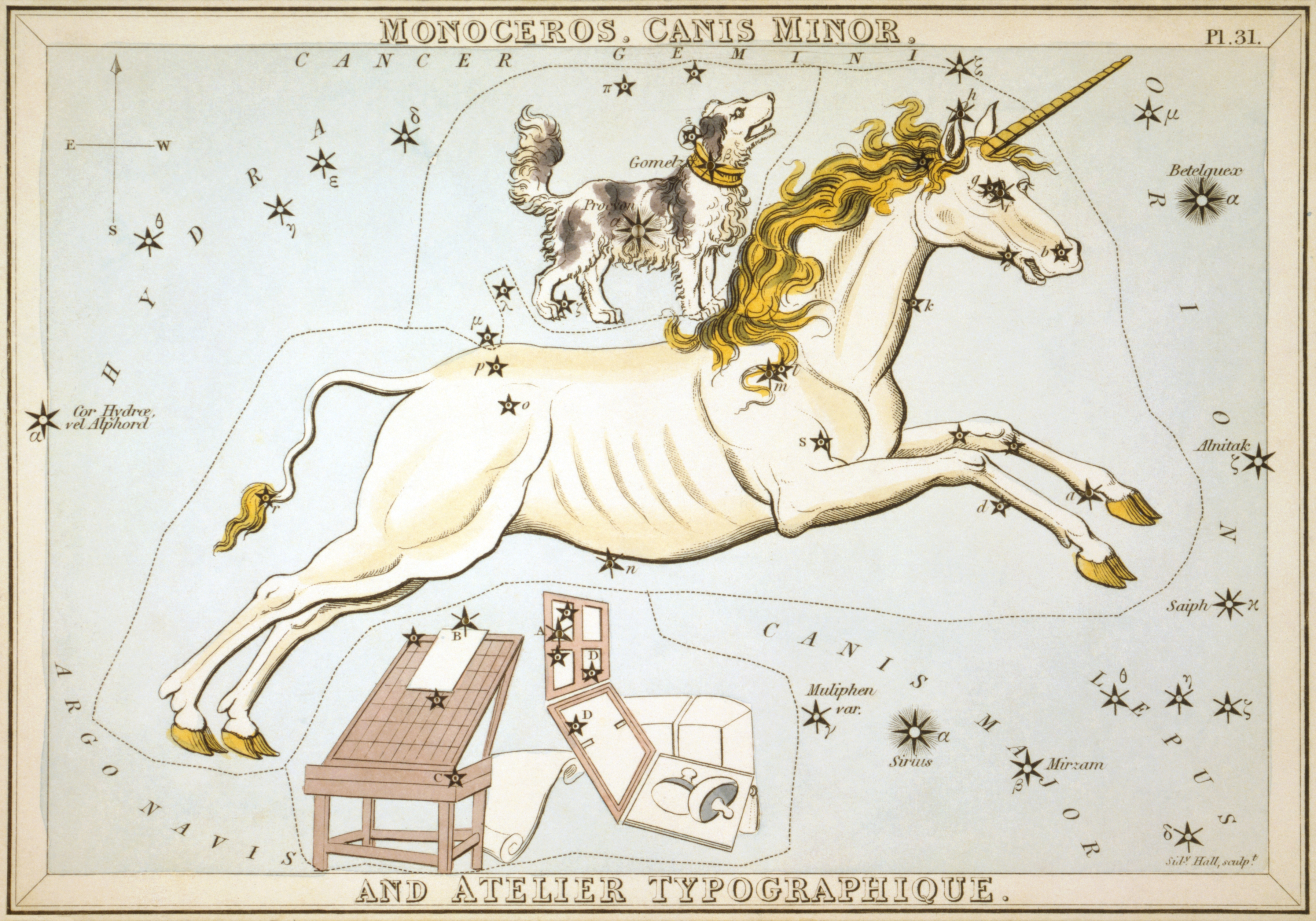 Monoceros, Canis Minor, and Atelier Typographique , plate 31 in Urania's Mirror, a set of celestial cards accompanied by A familiar treatise on astronomy ... by Jehoshaphat Aspin. London. Astronomical chart showing the constellations of Monoceros, Canis Minor and the obsolete constellation Atelier Typographique (Officina Typographica). 1 print on layered paper board : etching, hand-colored.